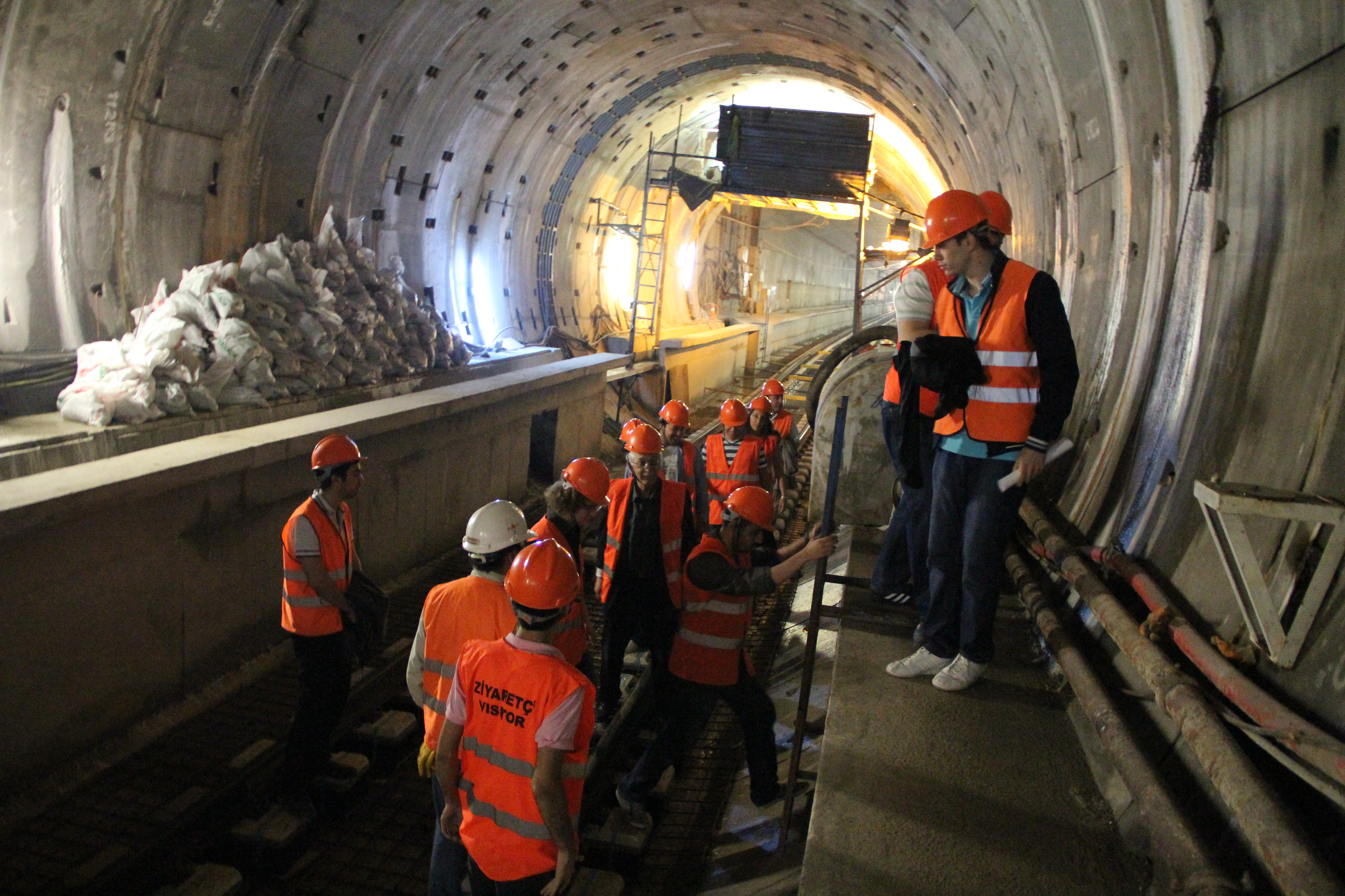 Marmaray Project